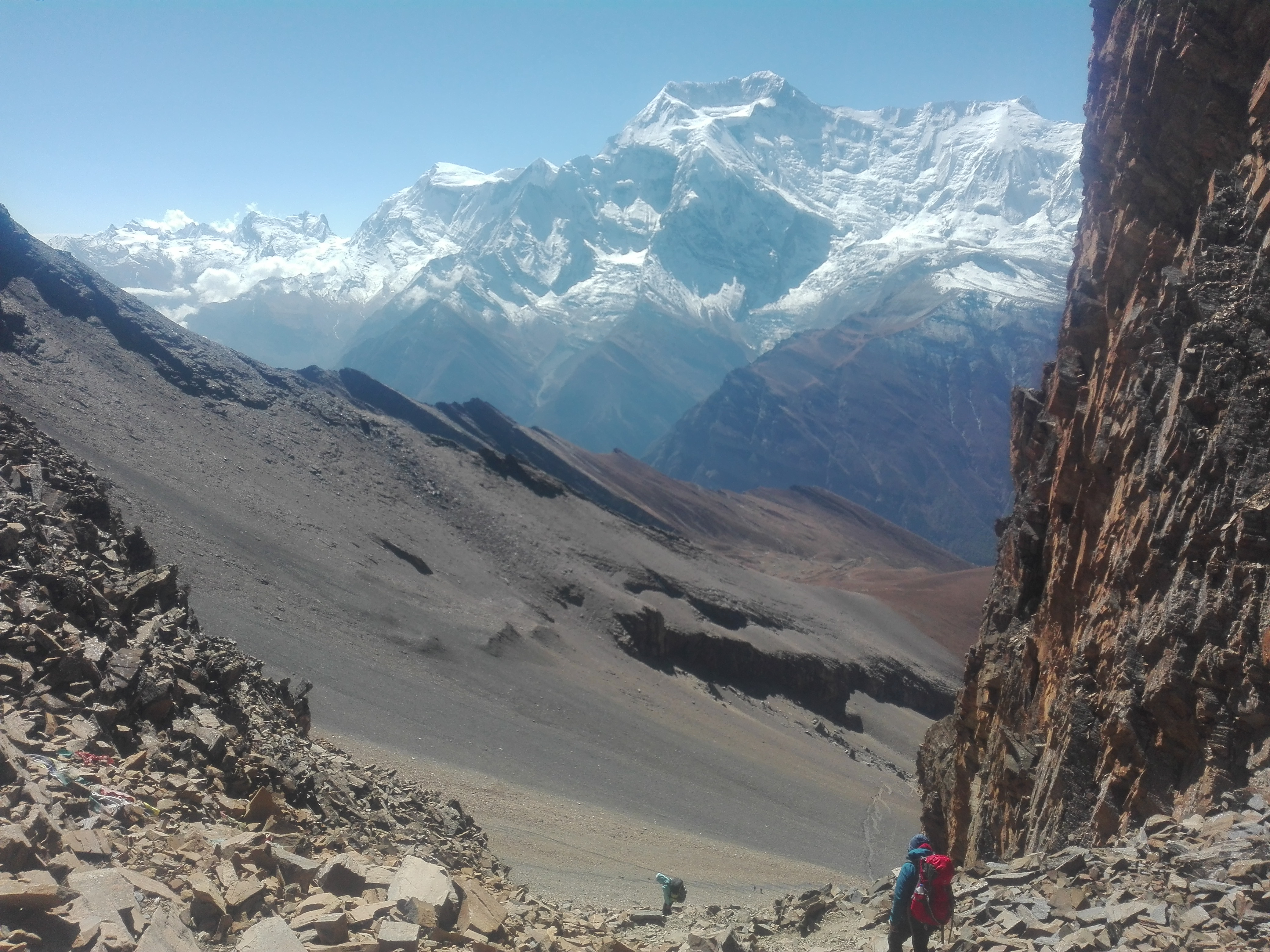 Kang La pass 5,320 Meter